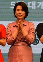 From left to right: Bong Joon-ho, Choi Woo-shik, Cho Yeo-jeong, Jang Hye-jin, Park So-dam, Lee Sun-kyun and Song Kang-ho.